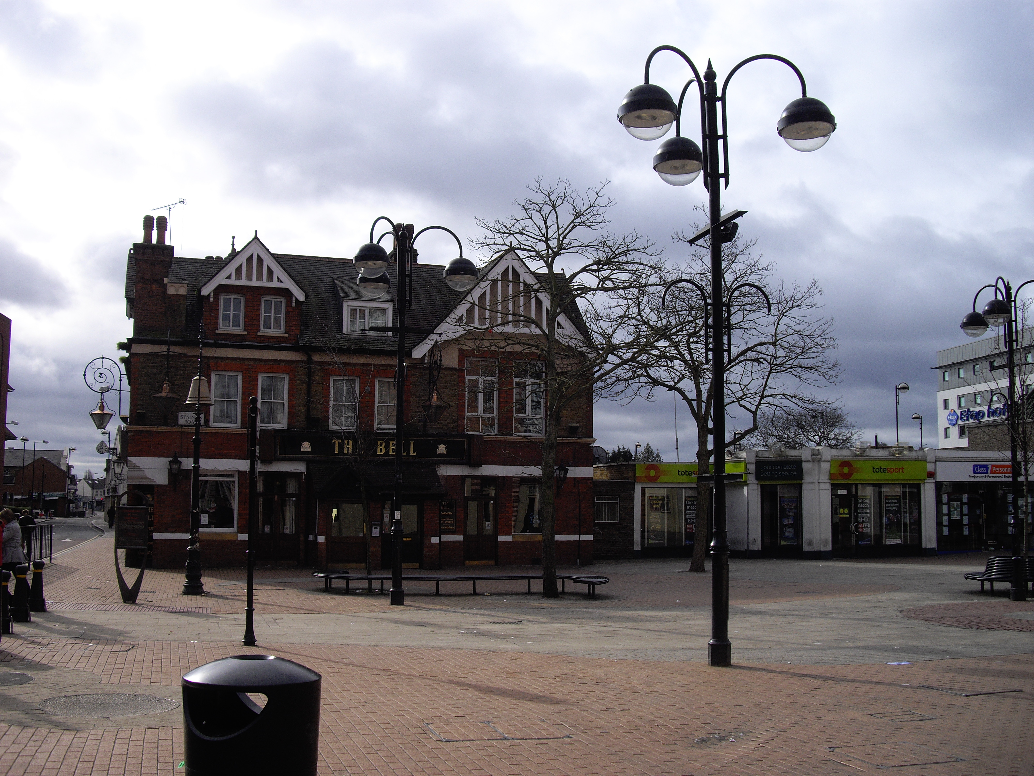 The Bell Public House and junction, Staines Road, Hounslow